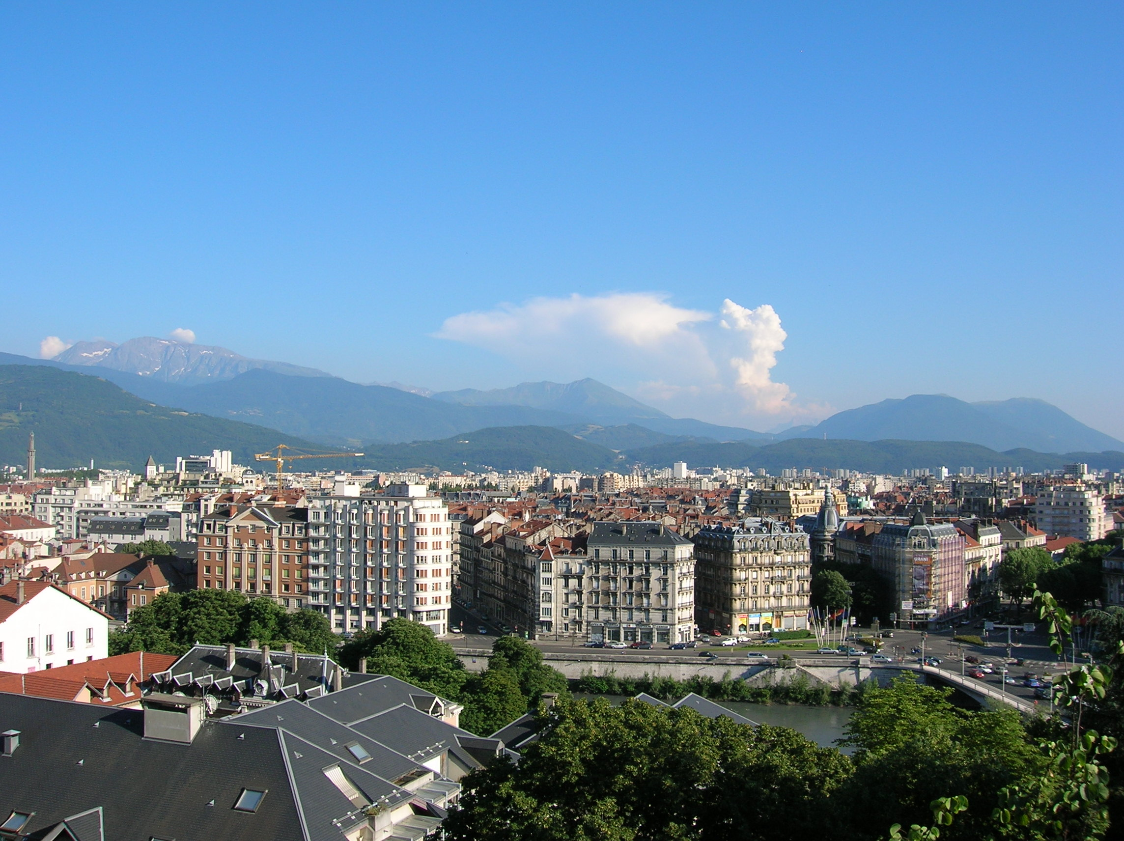 A view of Grenoble, France